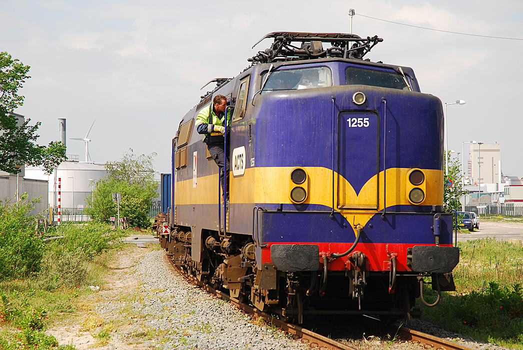 ACTS Class 1200 Electric loco 1255